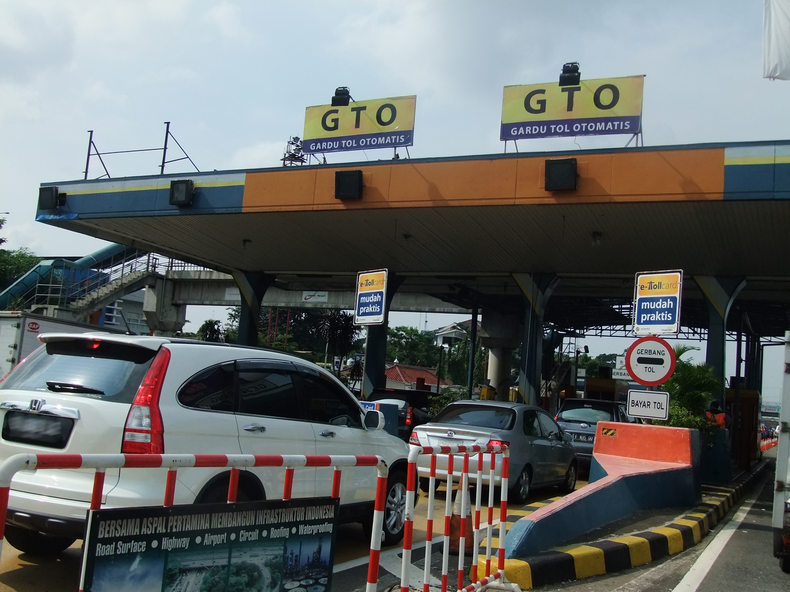 Automatic tol gate, Indonesia